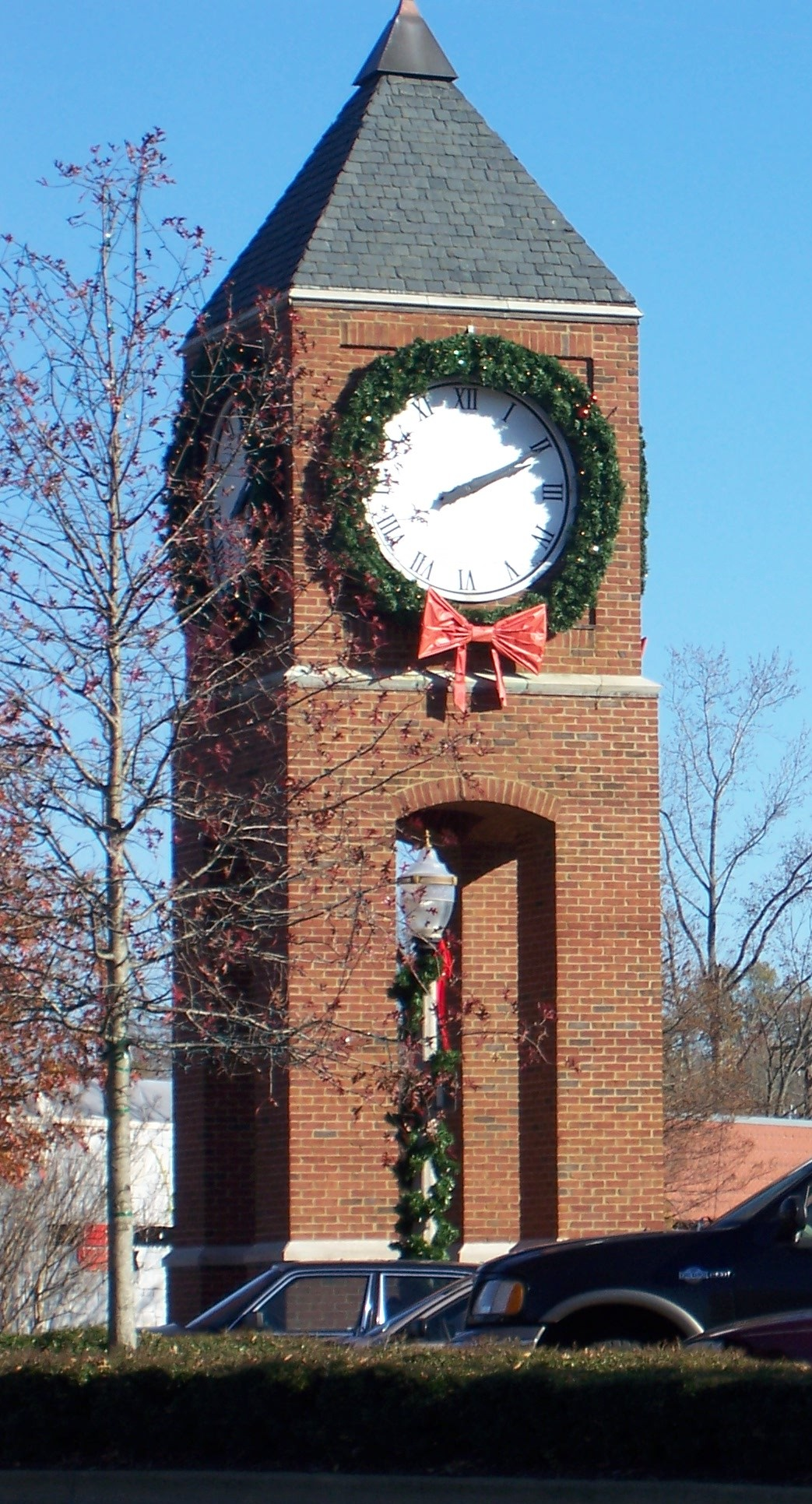 This is the clock tower that sits within Crestline Village in Mountain Brook, Alabama United States.